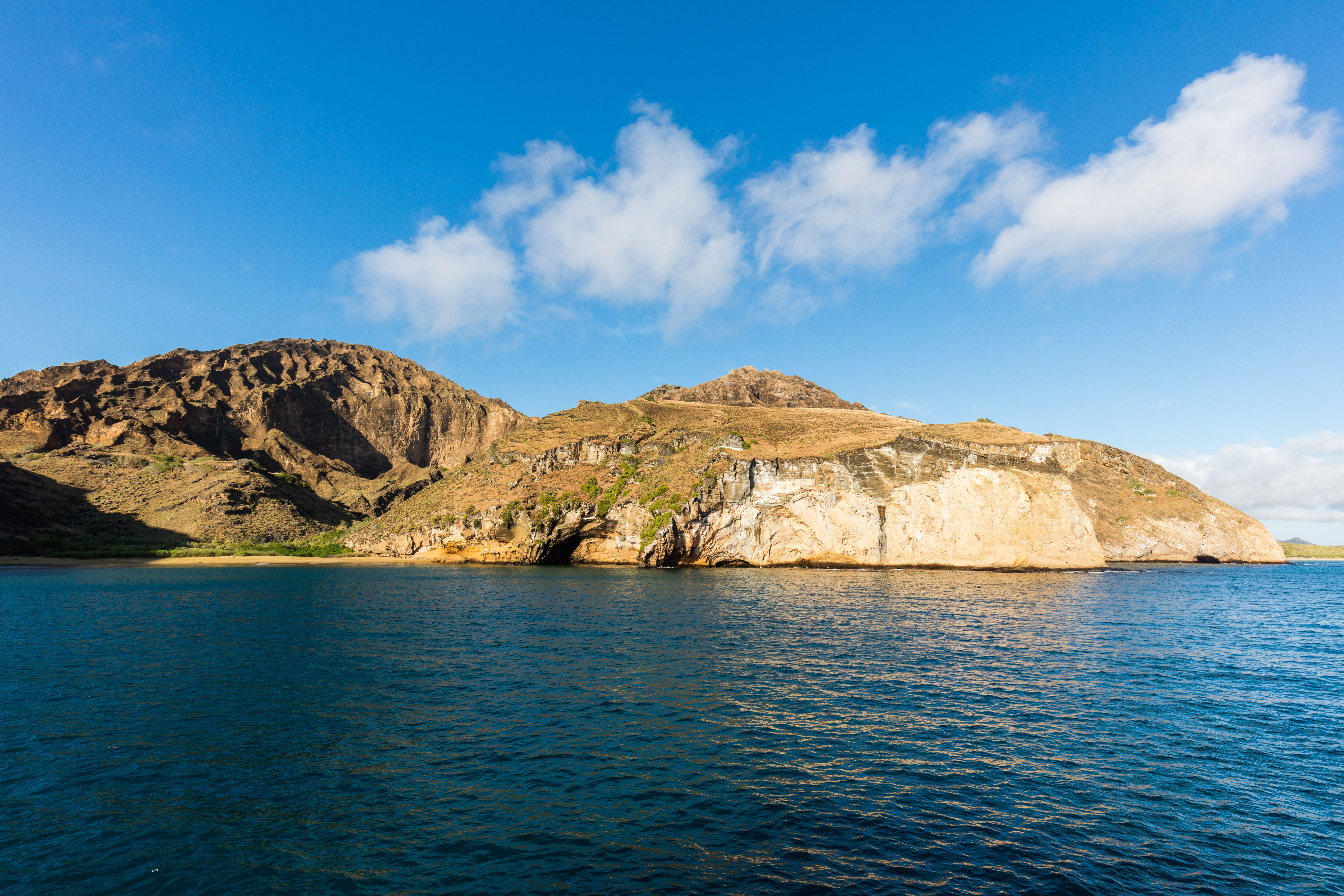 Punta Pitt, San Cristobal Island, Galapagos Islands, Ecuador